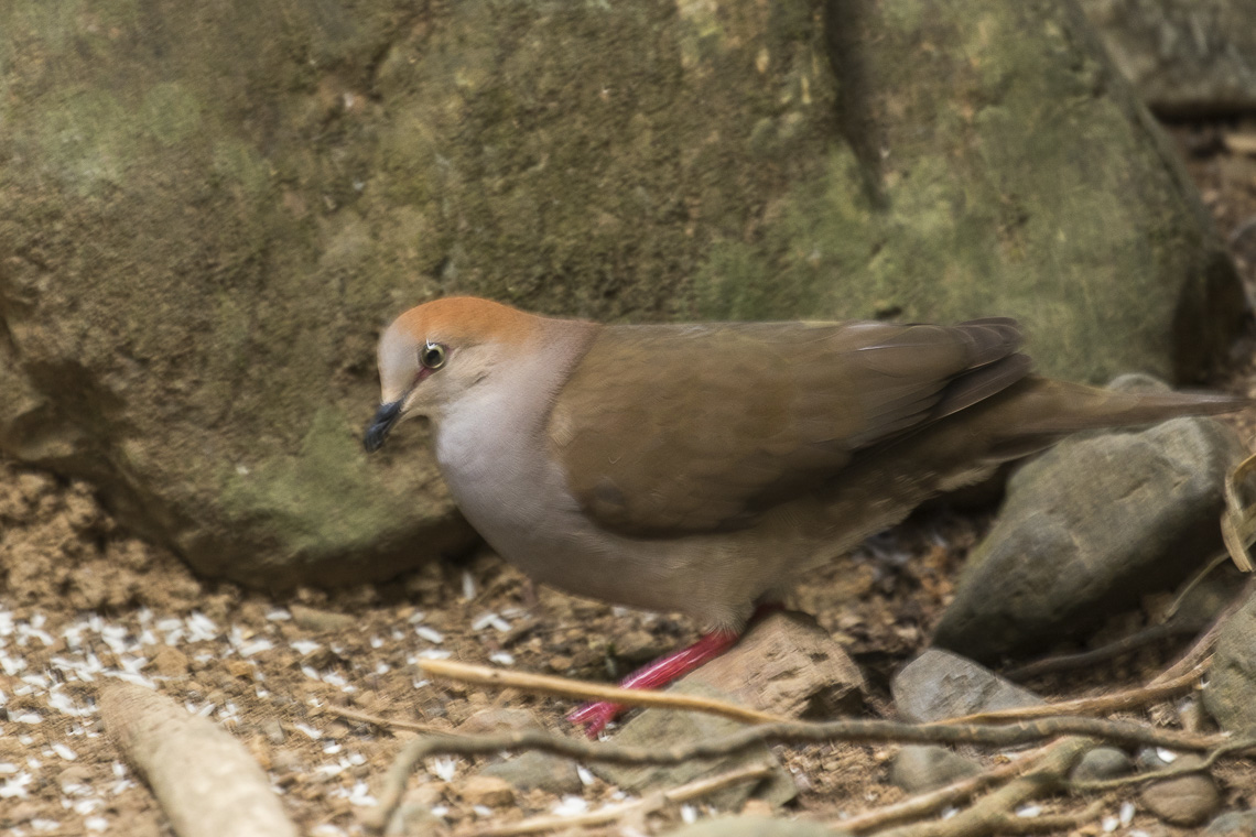 Grey-chested Dove - Rio Tigre - Costa Rica_MG_7710